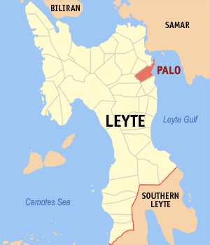 Map of Leyte showing the location of Palo